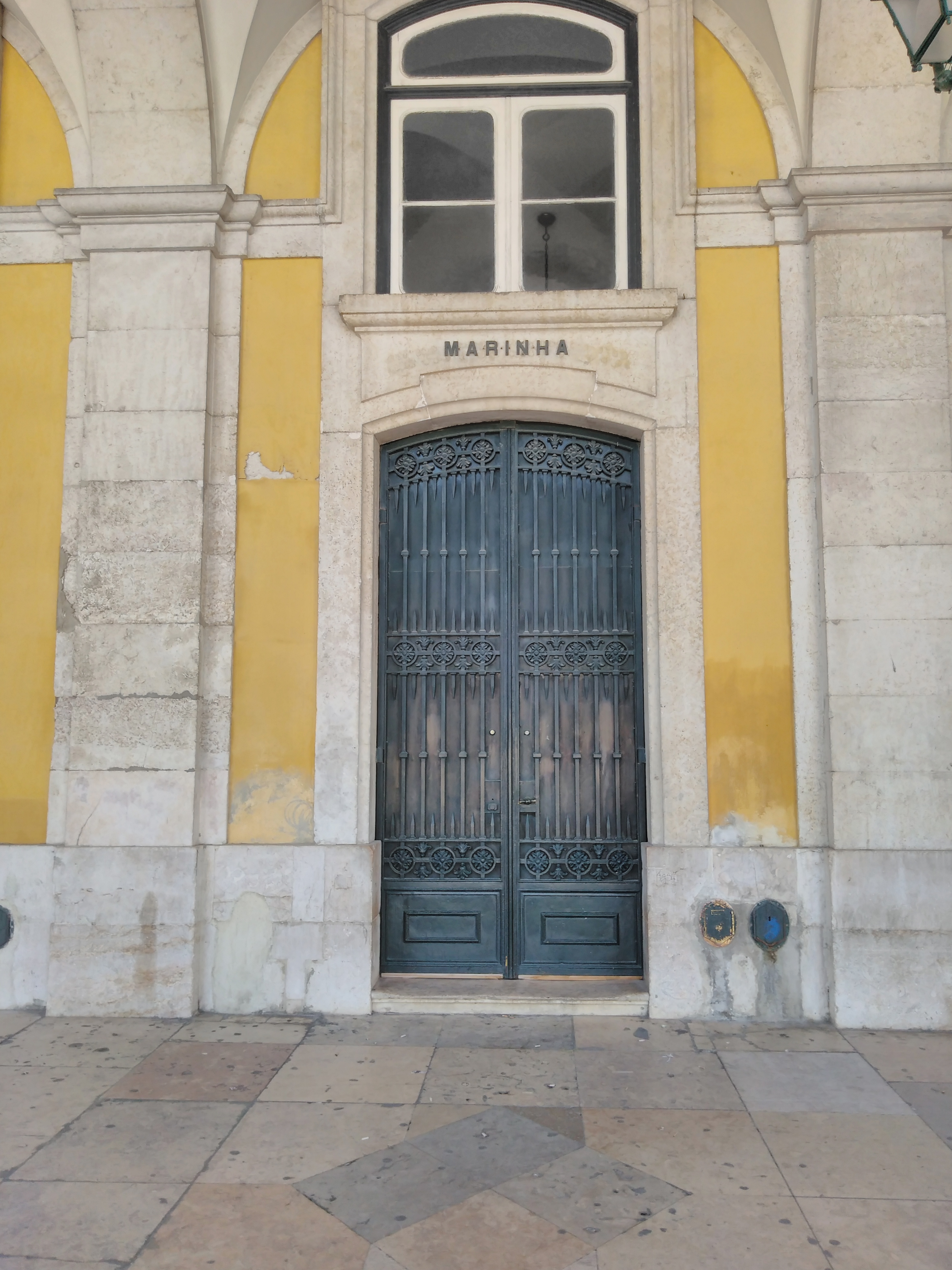 Former Marinha Ministry in the West wing of Praça do Comércio